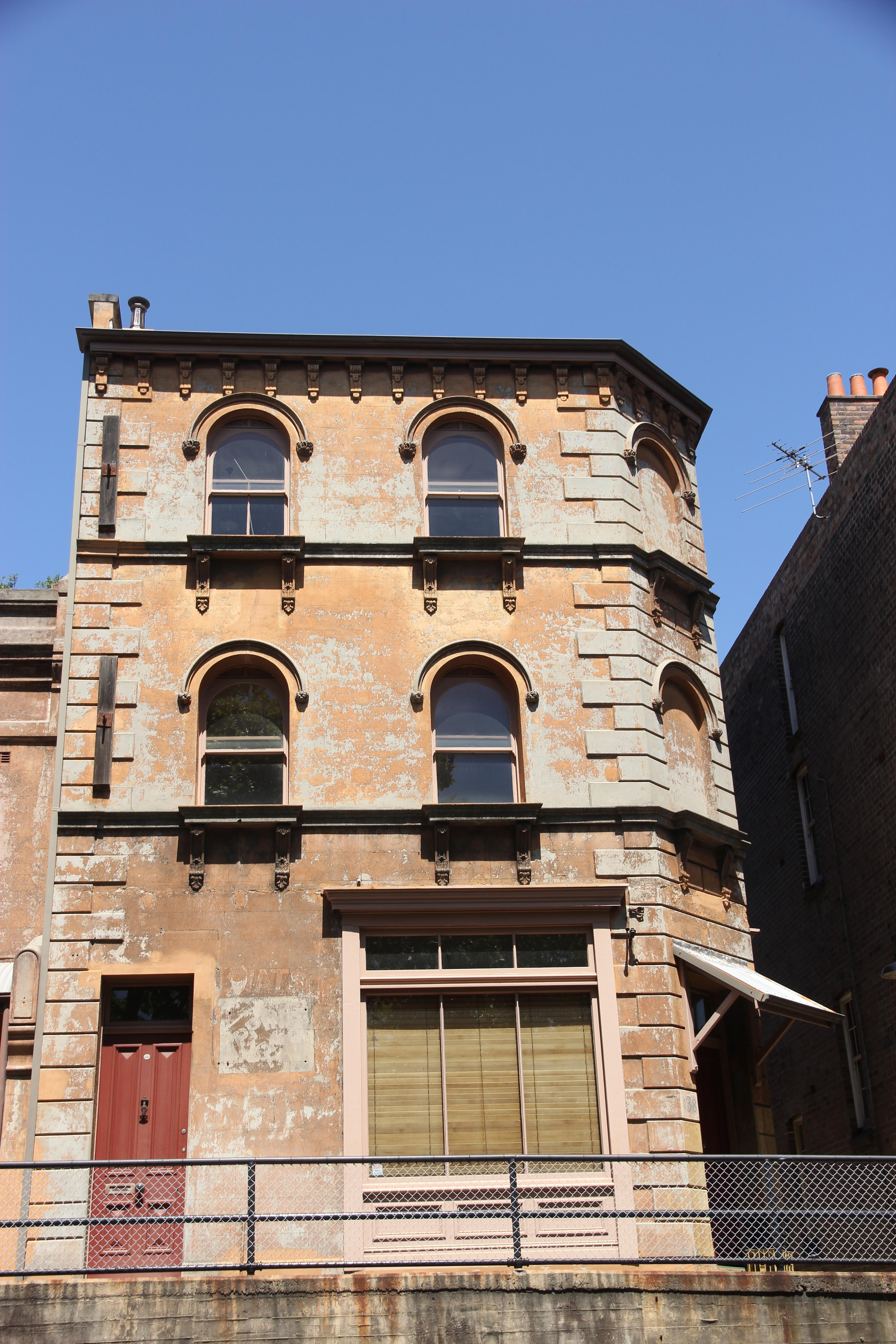 136-138 Cumberland Street in the Long's Lane Precinct, in The Rocks, in the City of Sydney, New South Wales, Australia. Listed on the New South Wales State Heritage Register.